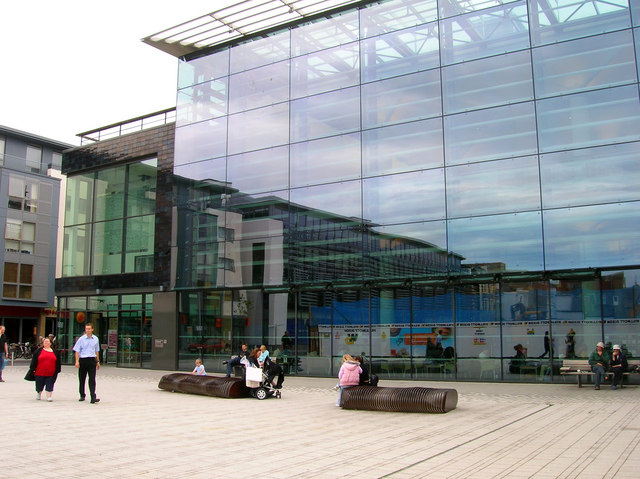 Jubilee Library, Jubilee Street. Head south down North Place then follow the paths around the swimming pool and turn west into this new square. Something that won't be found on an OS Map is the city's new purpose built library that finally opened in 2005 and has been a big success ever since it moved back from a tower block a mile to the north of the centre. The library is part of the Jubilee Street development that has finally after 30 years of wrangling filled the space between Church Street and North Road that was an eyesore. The original Jubilee Street was filled with small houses and workshops that had been gradually cleared from the 1950s until the last buildings came down in 1977. The area then became a car park as the Council and developers argued what to do with the site. Finally an agreement was reached in 2001 and most of the street has been rebuilt with the exception of a site opposite the library which is earmarked for a hotel. There is some concern that the shops that have opened in the street (including a Tesco Express and Starbucks) are trying to muscle their way into the independent shopping experience of this area as by doing so they put the rents up for other shops. However, a quick glance reveals that Gardner Street which runs parallel with Jubilee Street is still more popular. Click on the link to take you to the next page.